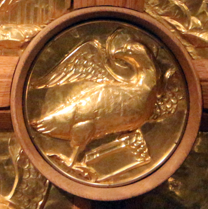 Pala d’oro (Aachen)